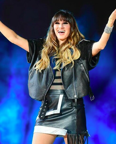 Hanna Nicole